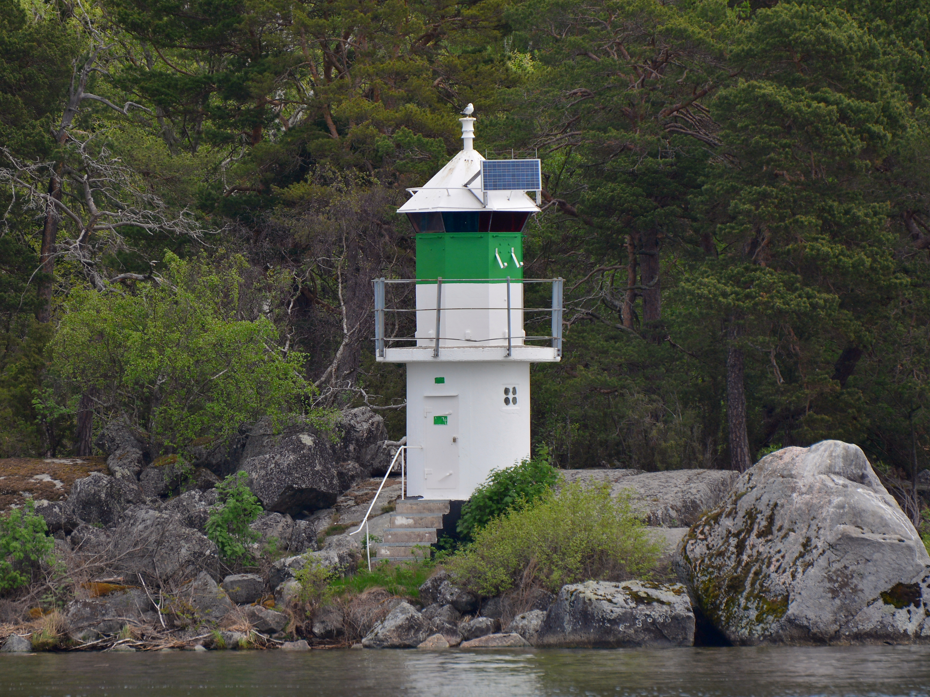 The lighthouse Bryggholmen in lake Mälaren.